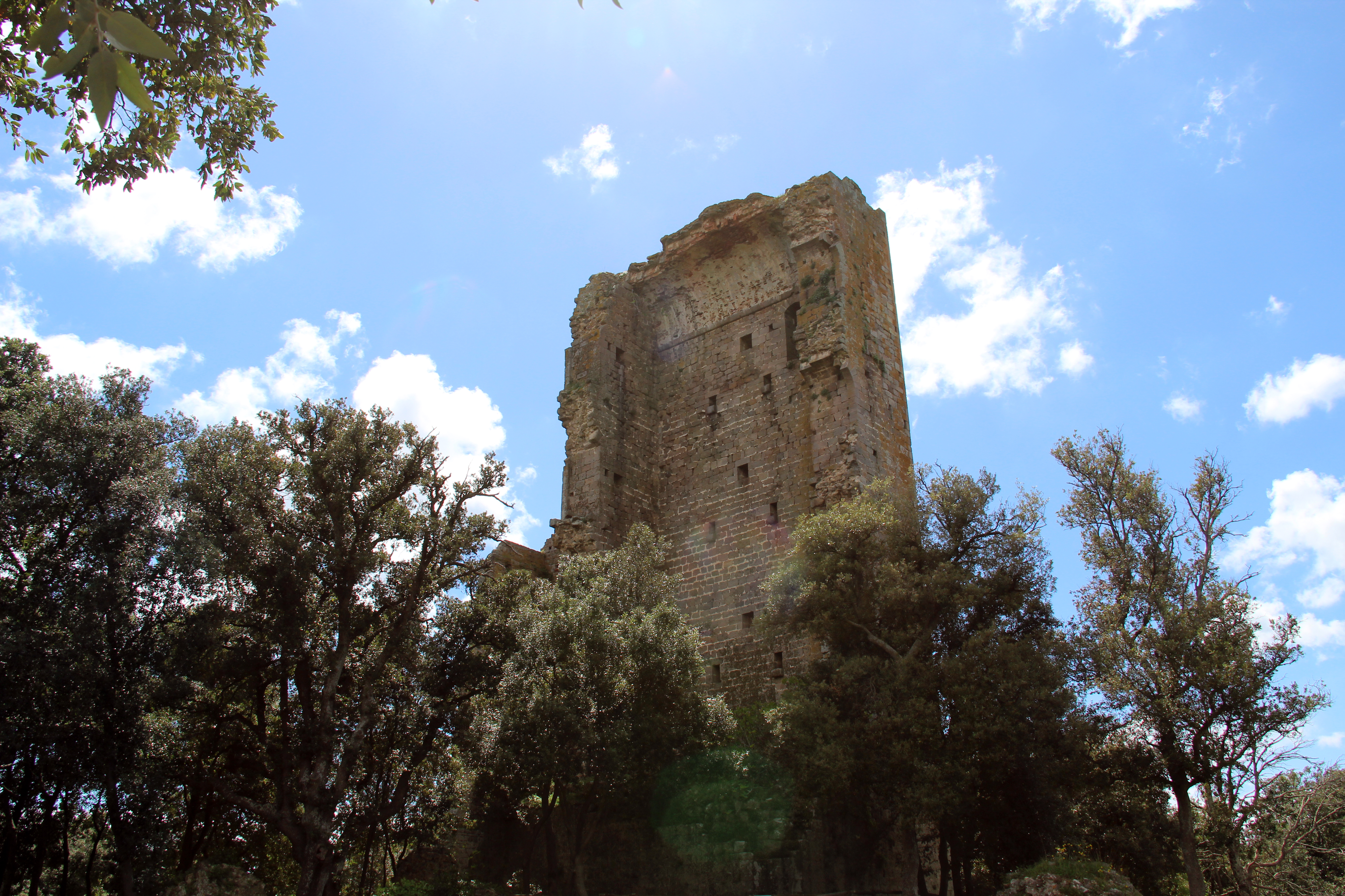 A photo of the remaining walls of Castello di Donoratico.